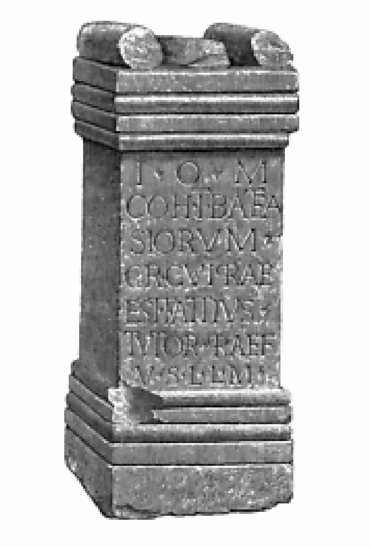 Altar dedicated to Jupiter Optimus Maximus by Titus Attius Tutor, prefect first Cohort of Baetasians, found 1870 about 320 m north-east of the roman fort at Maryport.